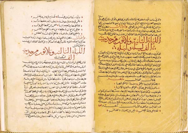 Two pages from the [Galland manuscript, the oldest text of The Thousand and One Nights. Arabic manuscript, back to the 14th century from Syria in the Bibliotheque Nationale in Paris [1]